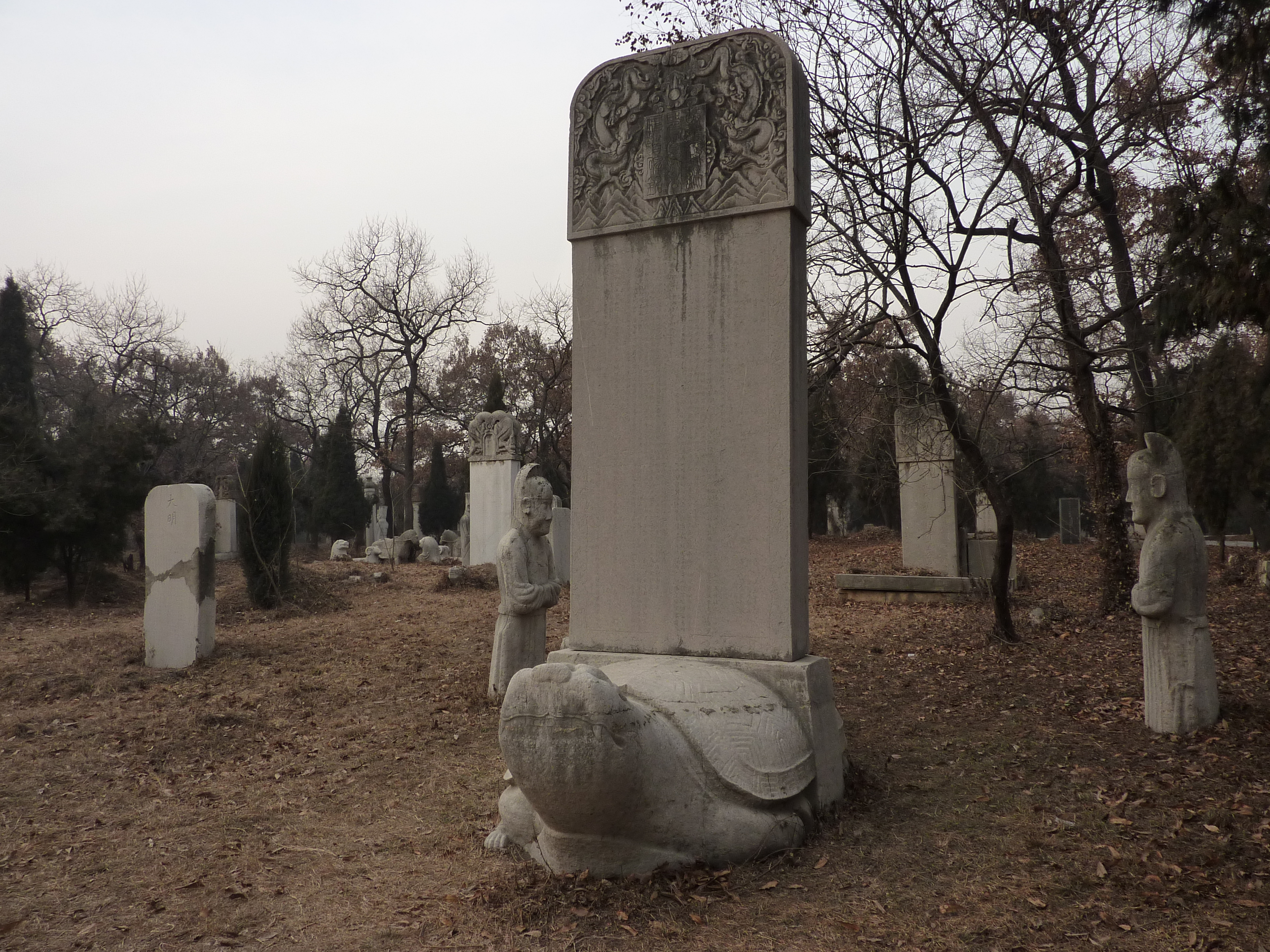 The area in the Ming (western) part of the Cemetery of Confucius where Dukes of Yansheng, who were the leaders of the Kong clan (55th through 64th generations in the direct line of descent from Confucius, according to an explanatory plaque) and the feudal rulers of Qufu, have been buried. Each of the dukes appears to have his own "spirit road" (shendao), i.e. a a path lined with the statues of feline creatures (cat? lions? tigers?), rams, horses, warriors and officials, concluded with a stele-bearing bixi tortoise, and, finally, the actual tombstone. As elsewhere in China, the tombstones and the bixi normally face south, while the spirit way figures face each other, looking across the path that runs from the south to the north.